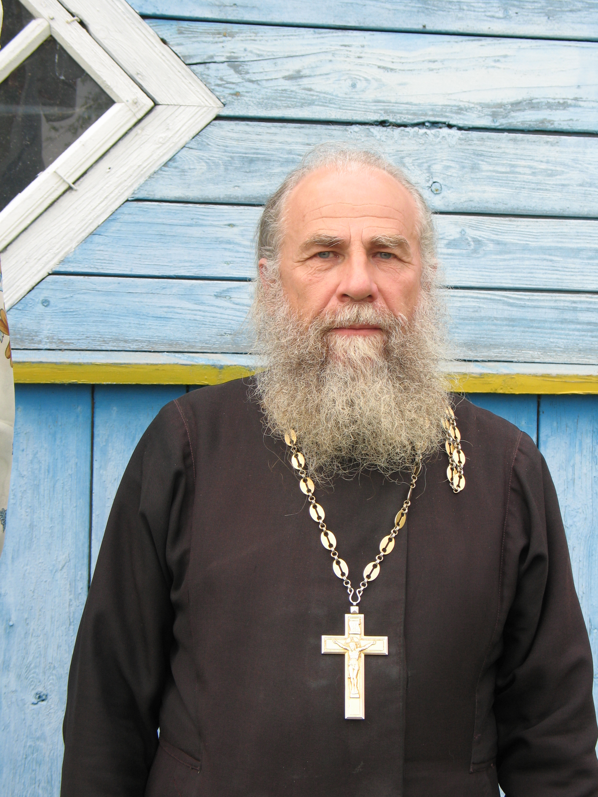 Priest of church in the village Buchin Stepan Savovich Melnuk